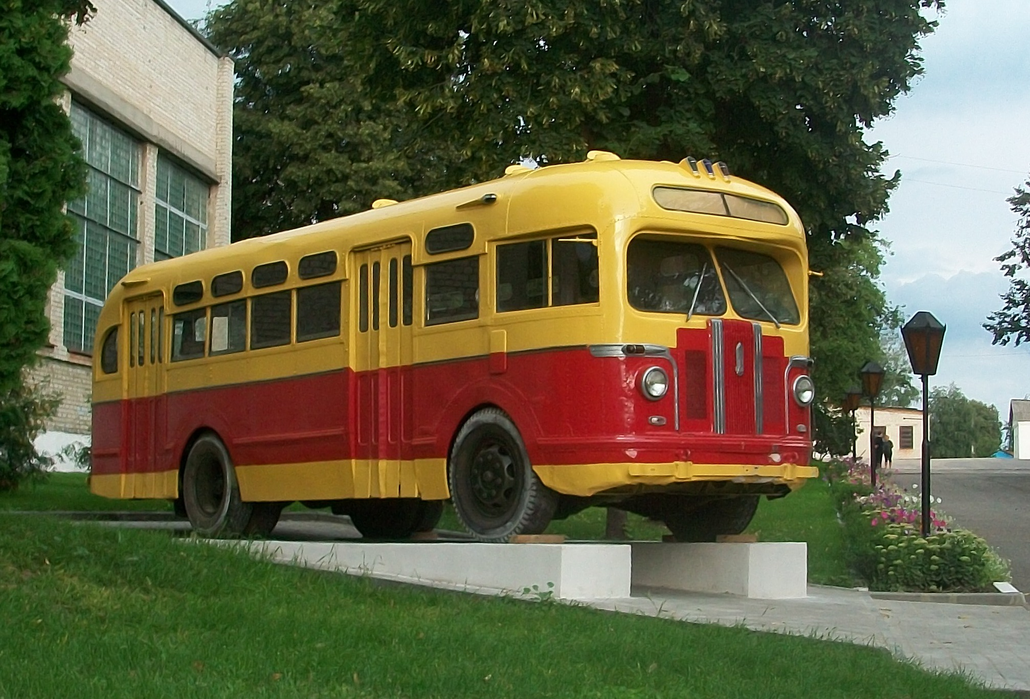 a soviet ZIS-155